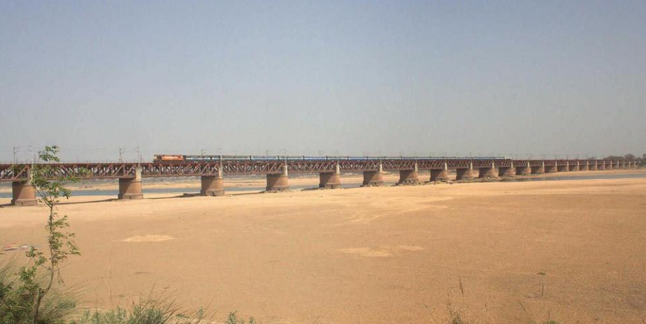 Koilwarbridge